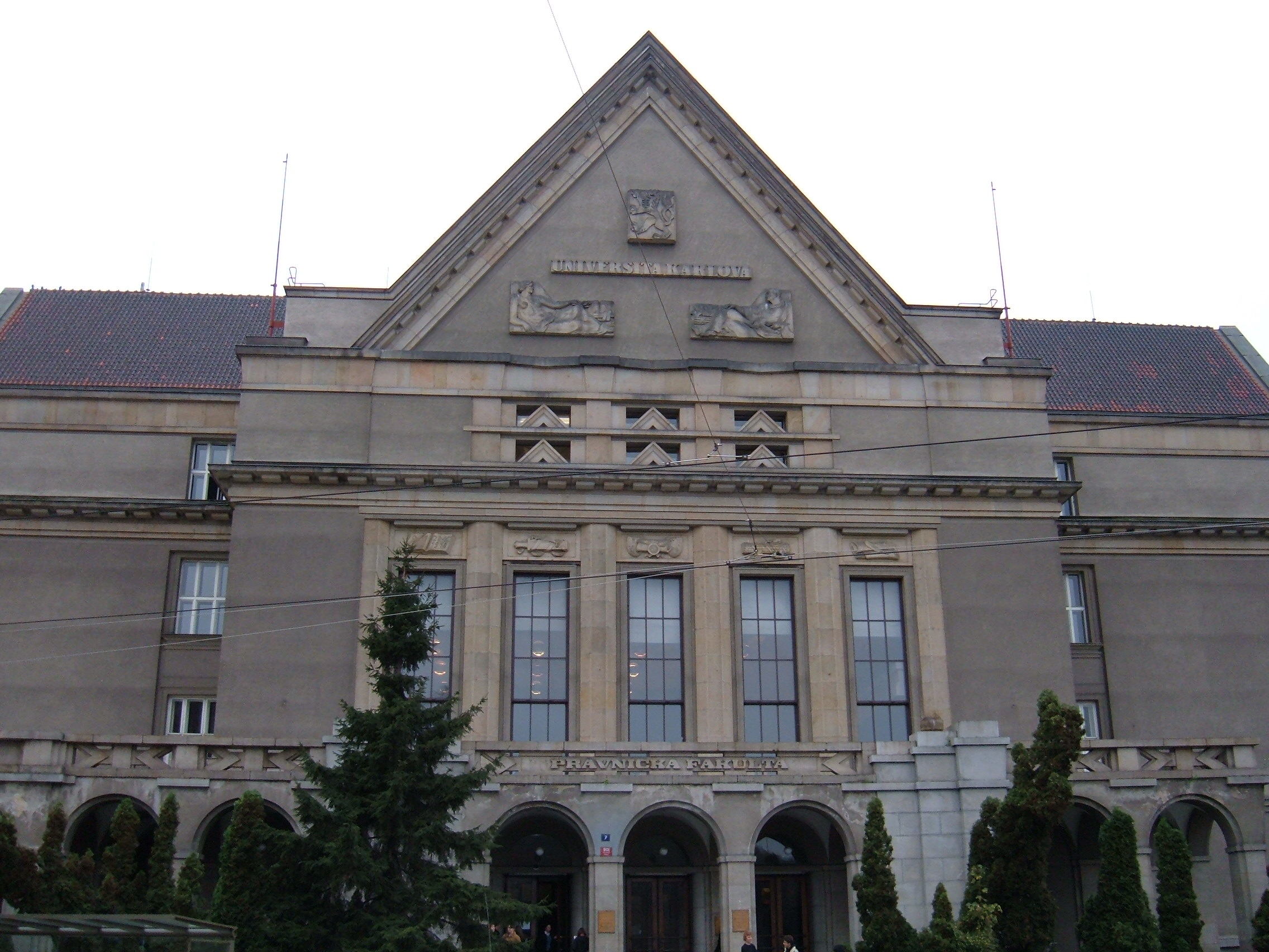 The front of the Faculty of Law, Charles University in Prague, Czech Republic.